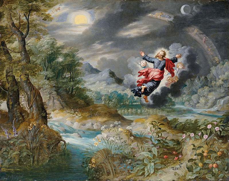 God creating the Sun, the Moon and the Stars